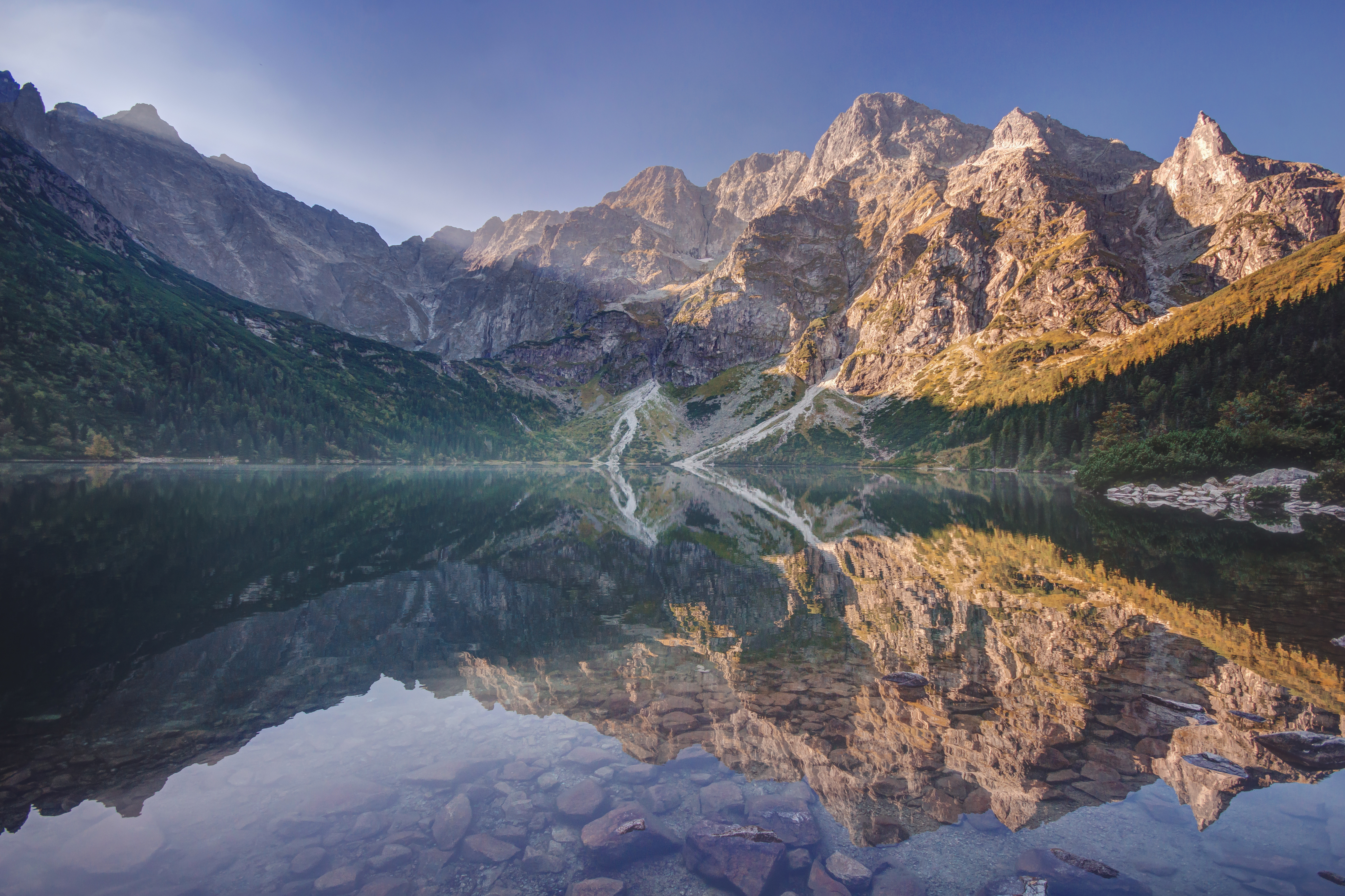 Morskie Oko, or Eye of the Sea in English, is the largest and fourth-deepest lake in the Tatra Mountains, in southern Poland. This is a photography of protected area with CRFOP ID PL.ZIPOP.1393.PN.14